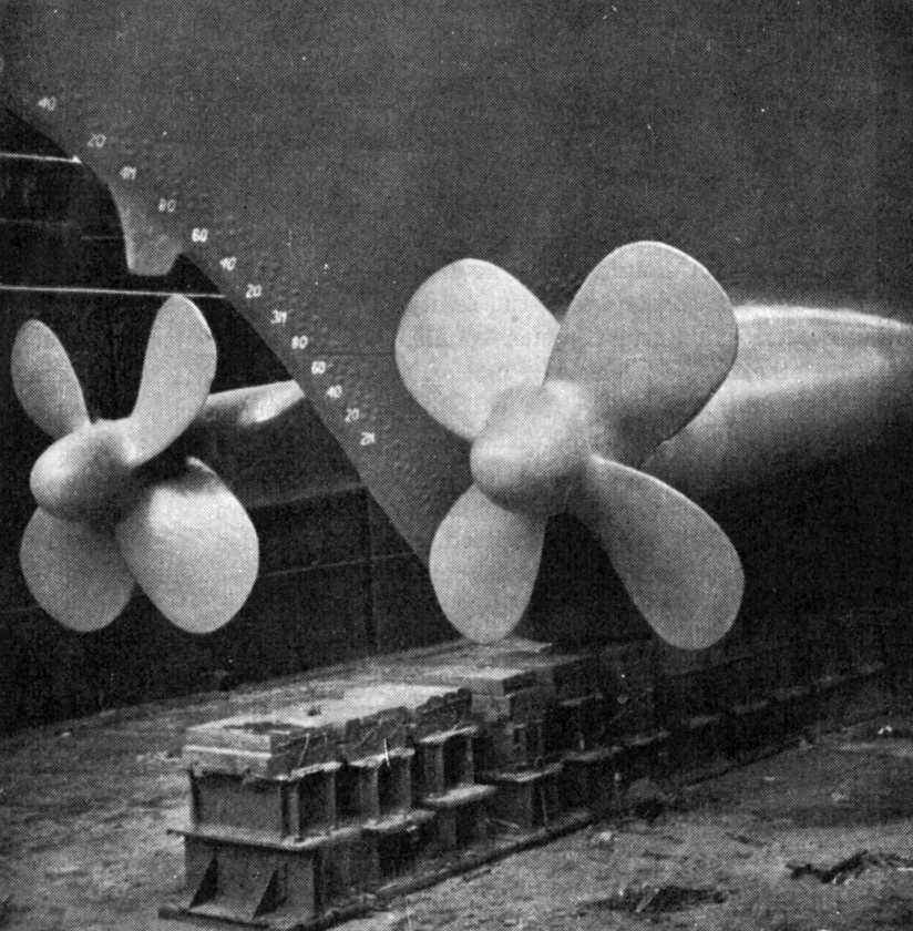 The bow propellers of the Finnish icebreaker Voima (1954)